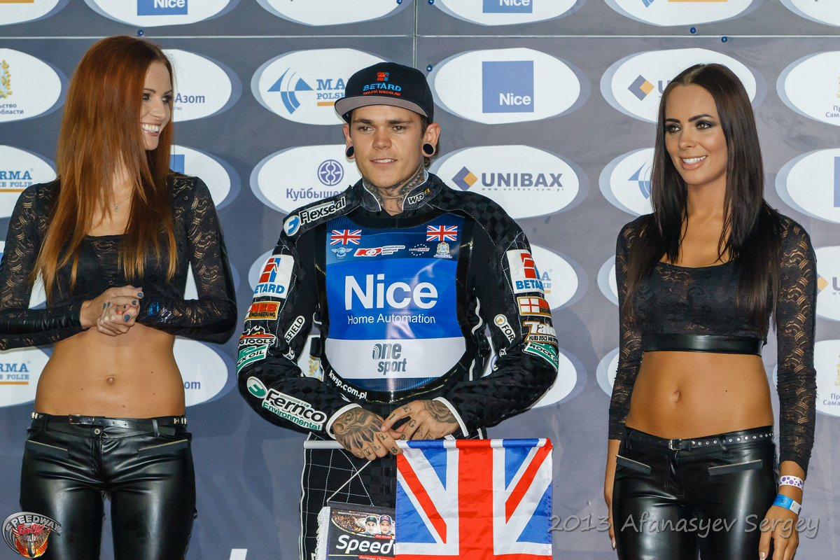 Tai Woffinden. 2nd final of Individual Speedway European Championship 2013. Togliatti, Russia